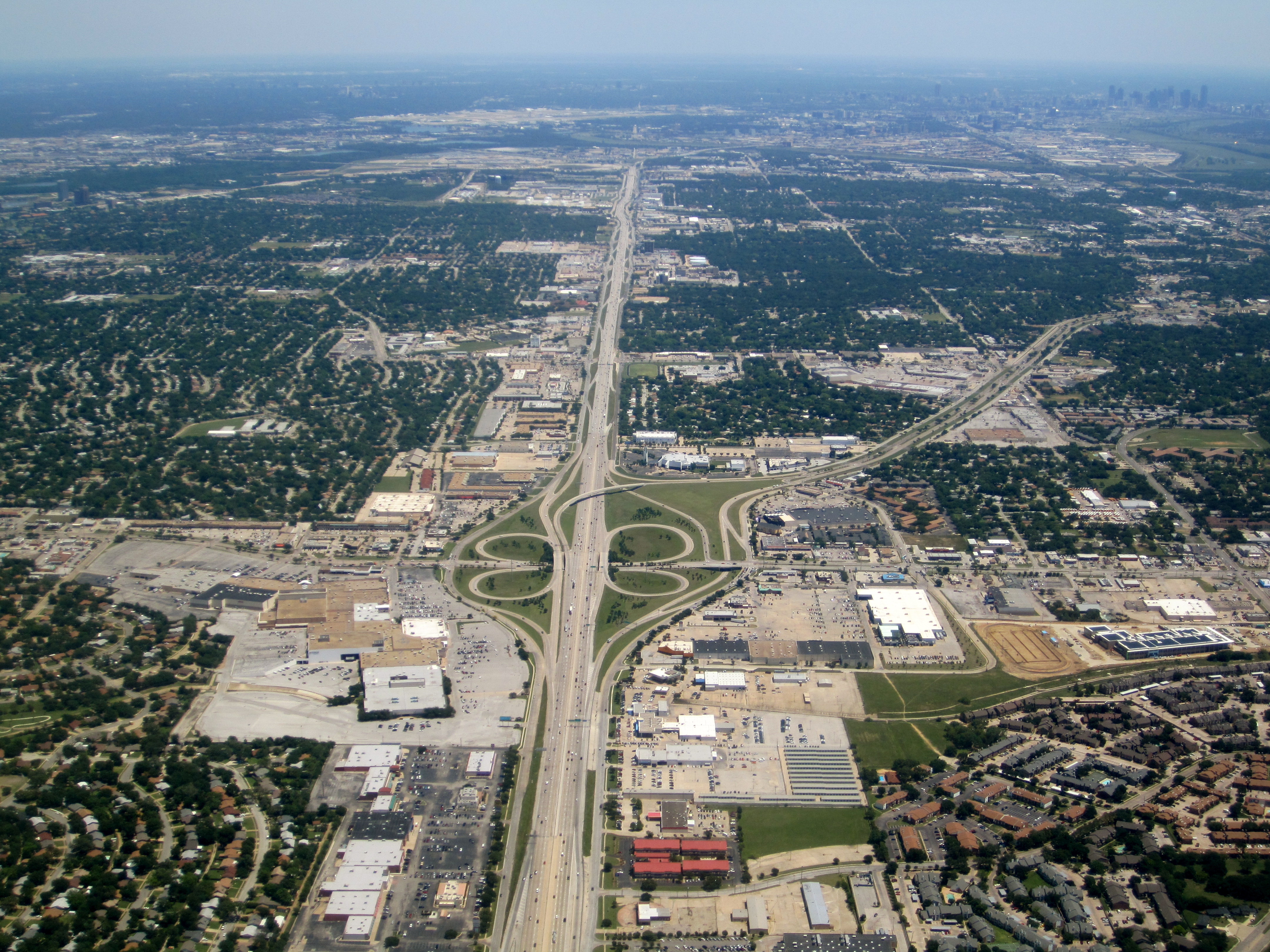 Irving contains the Las Colinas area, which was one of the first master-planned developments in the United States and once the largest mixed-use development in the Southwest with a land area of more than 12,000 acres.